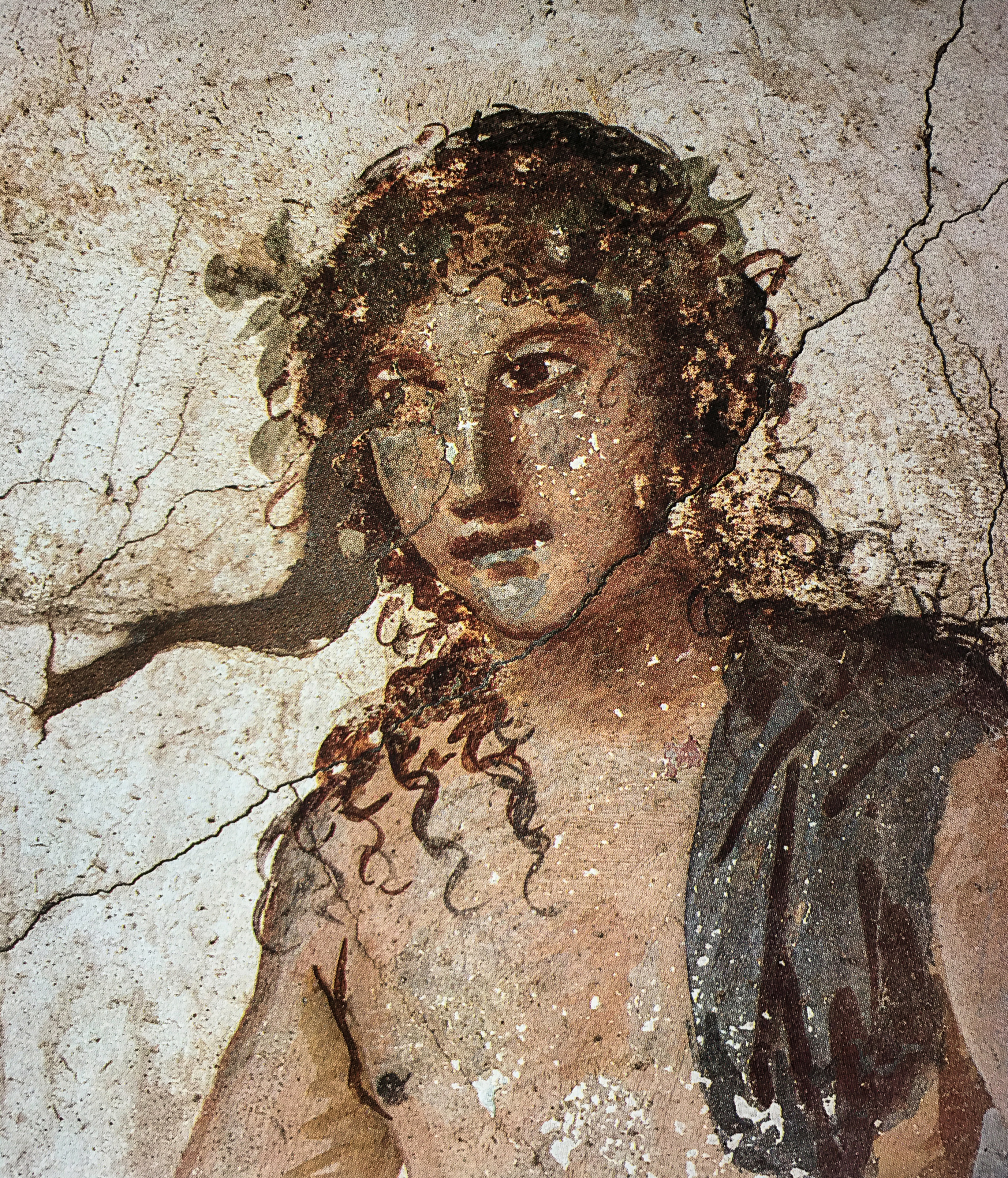 House of the Prince of Naples Pompeii Plate 165 Exedra Bacchus closeup